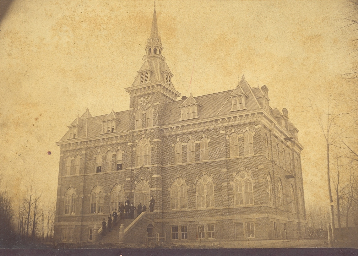 This is a photo of the Old Main at Dr. Martin Luther College in New Ulm, MN, taken in the 1880s. The photo was taken soon after the building's construction in 1884.